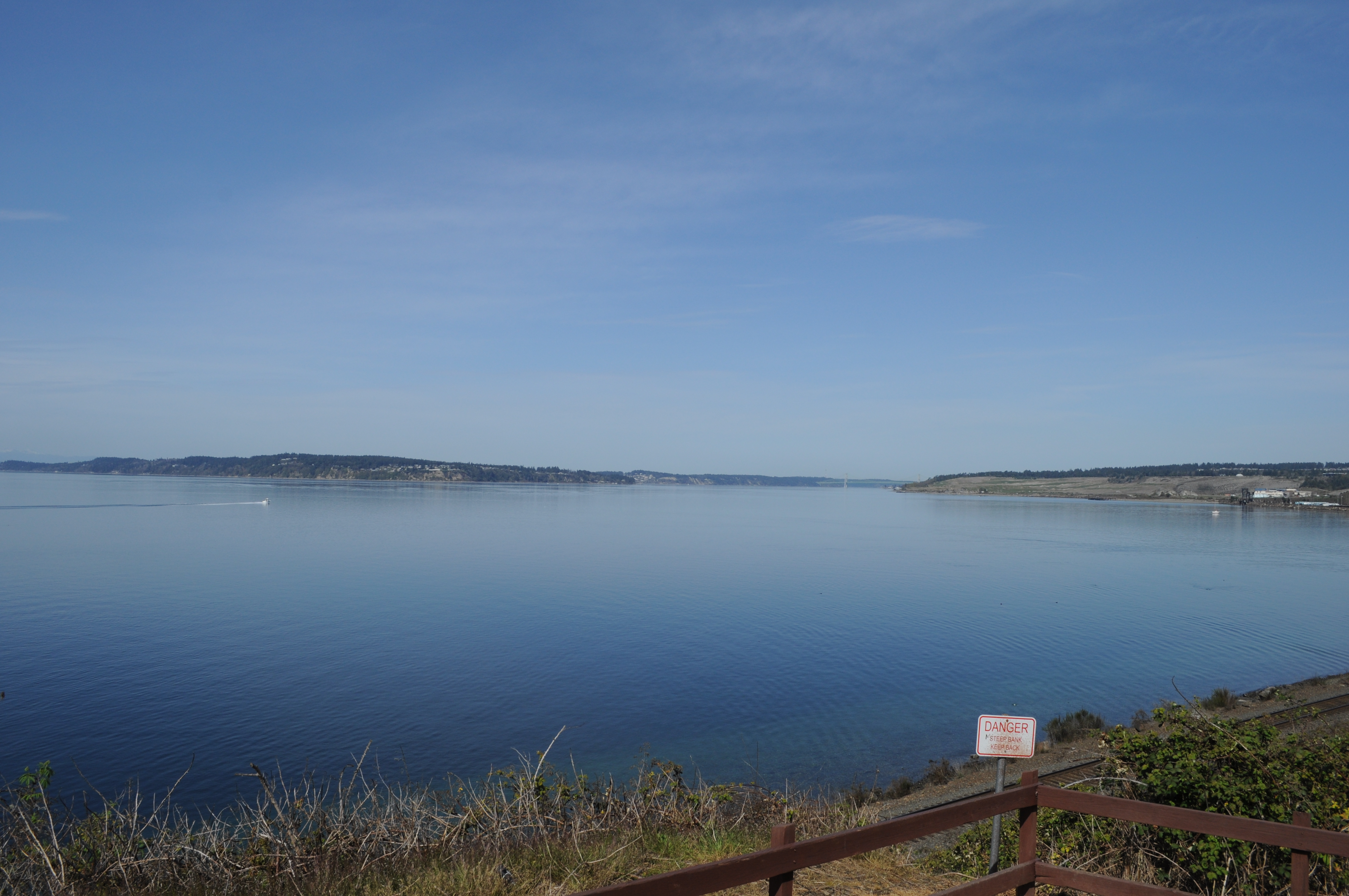 Fox Island and the Tacoma Narrows. Looking roughly NNE from Steilacoom, Washington.